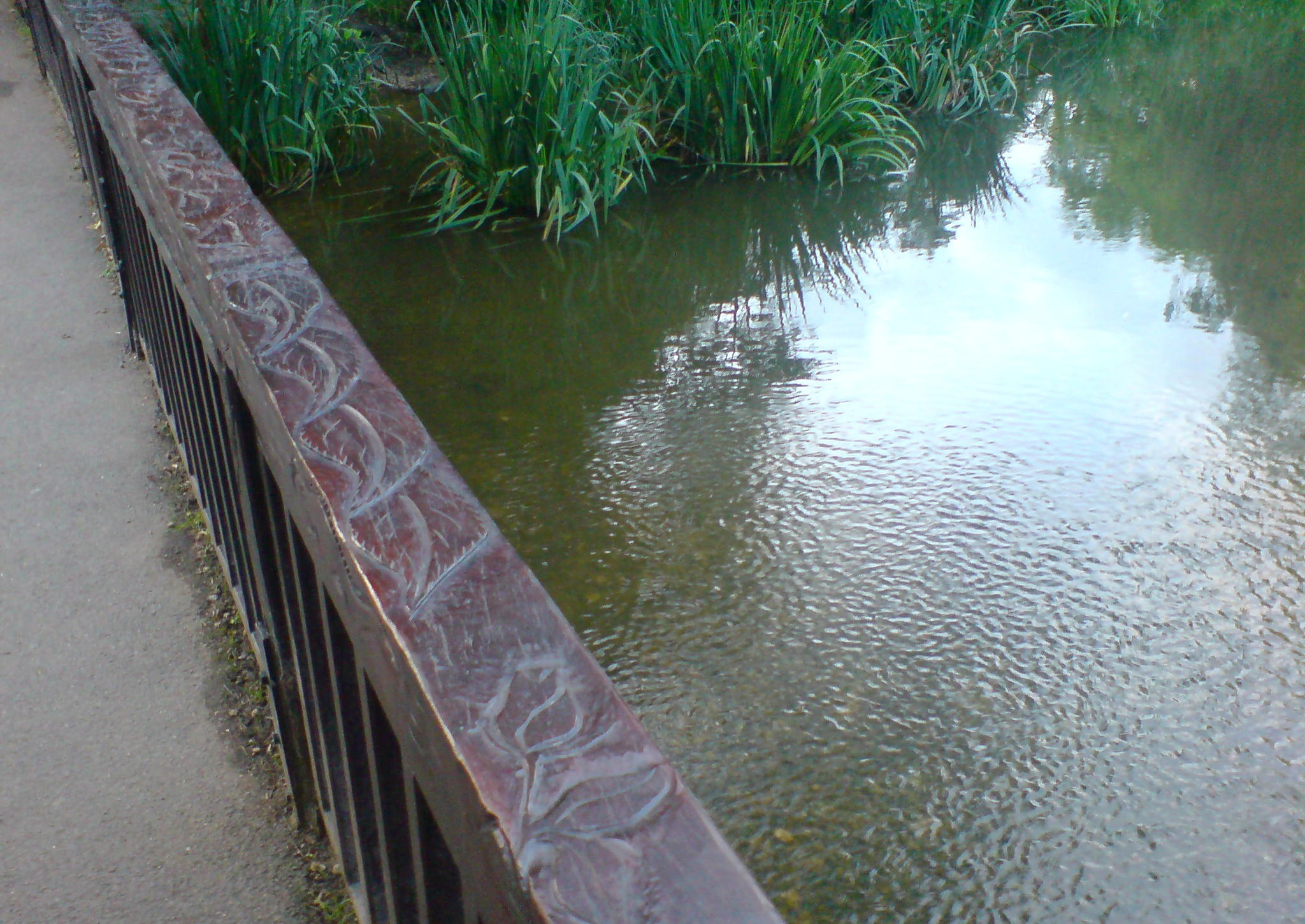 The famous "Carved Bride" at Cassiobury Park